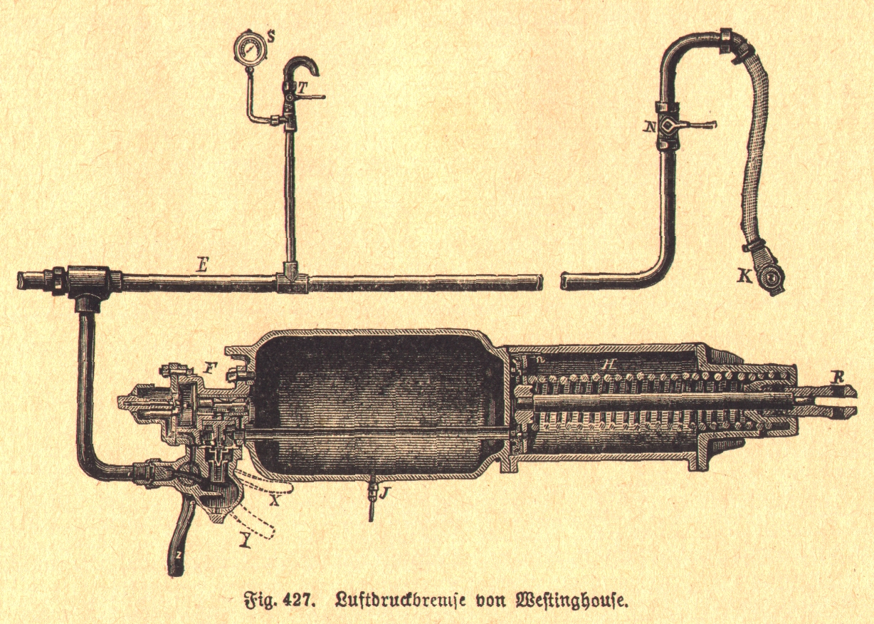 Westinghouse air brake